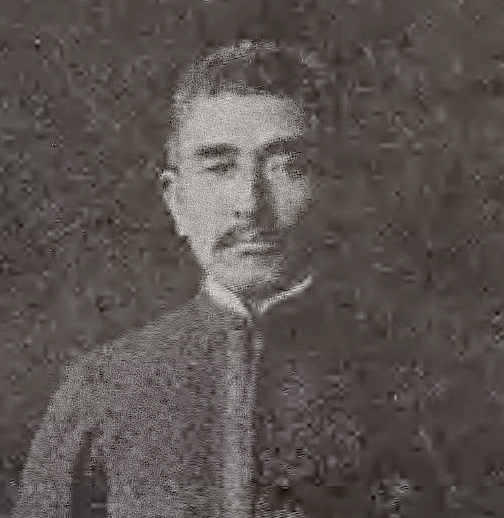 Teragaki Izō is an Imperial Japanese Navy Vice Admiral